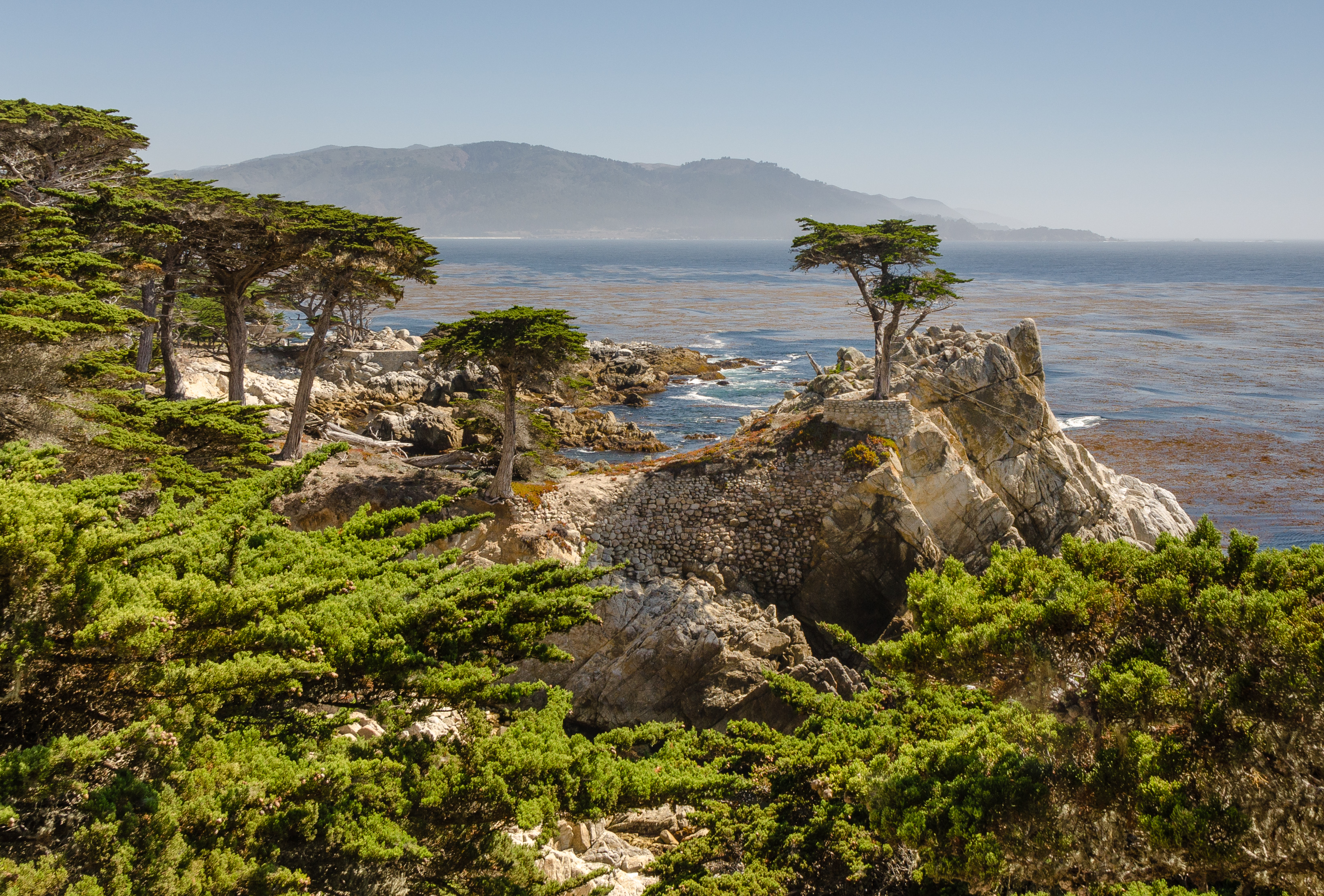 The "Lone Cypress" (a Monterey Cypress Cupressus macrocarpa) at 17 Mile Drive, Monterey, California